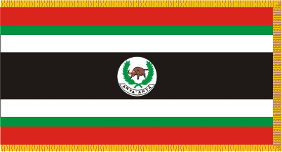 Flag of Anya-Anya (I)